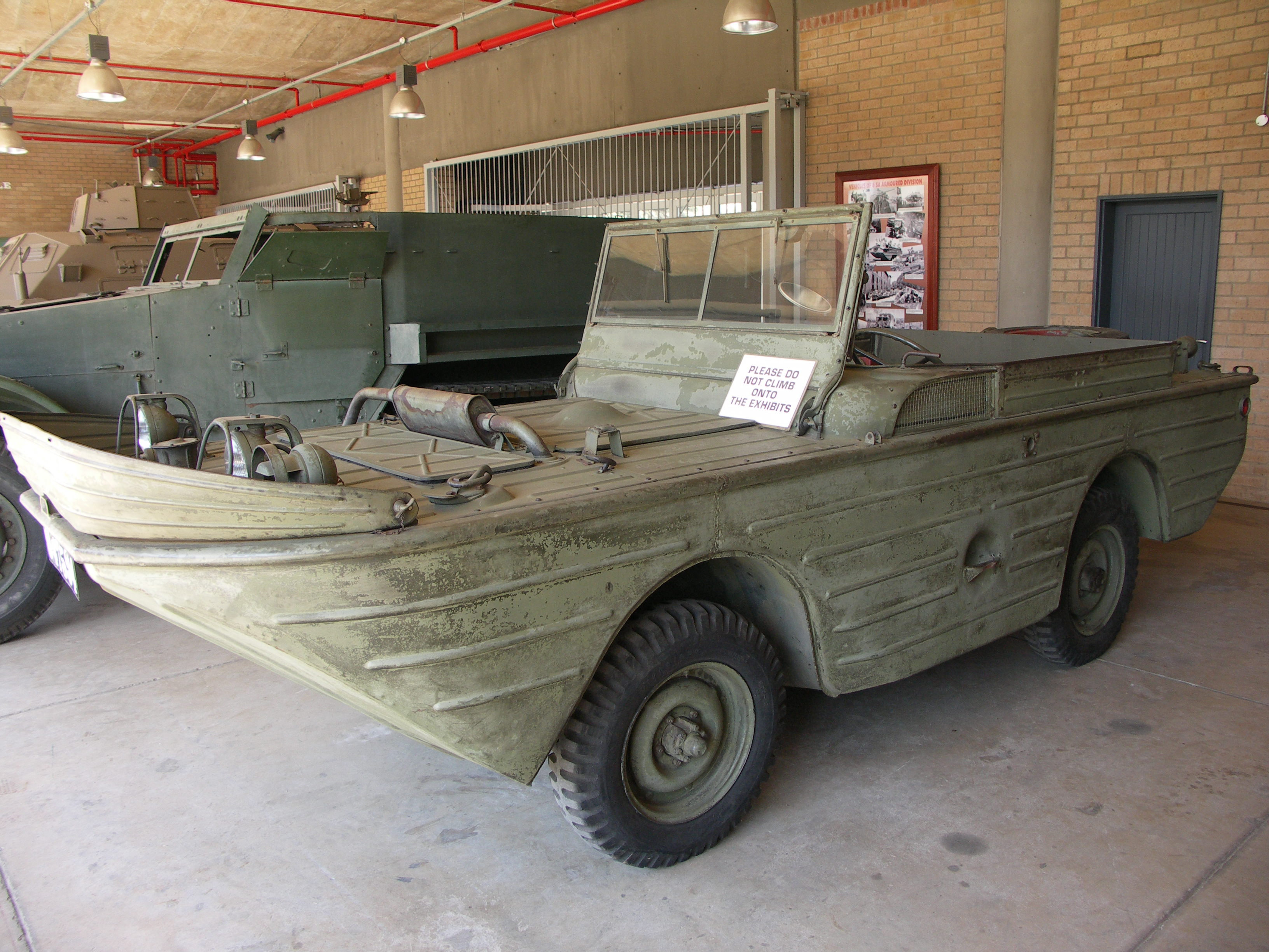 Ford GPA at the South African National Museum for Military History